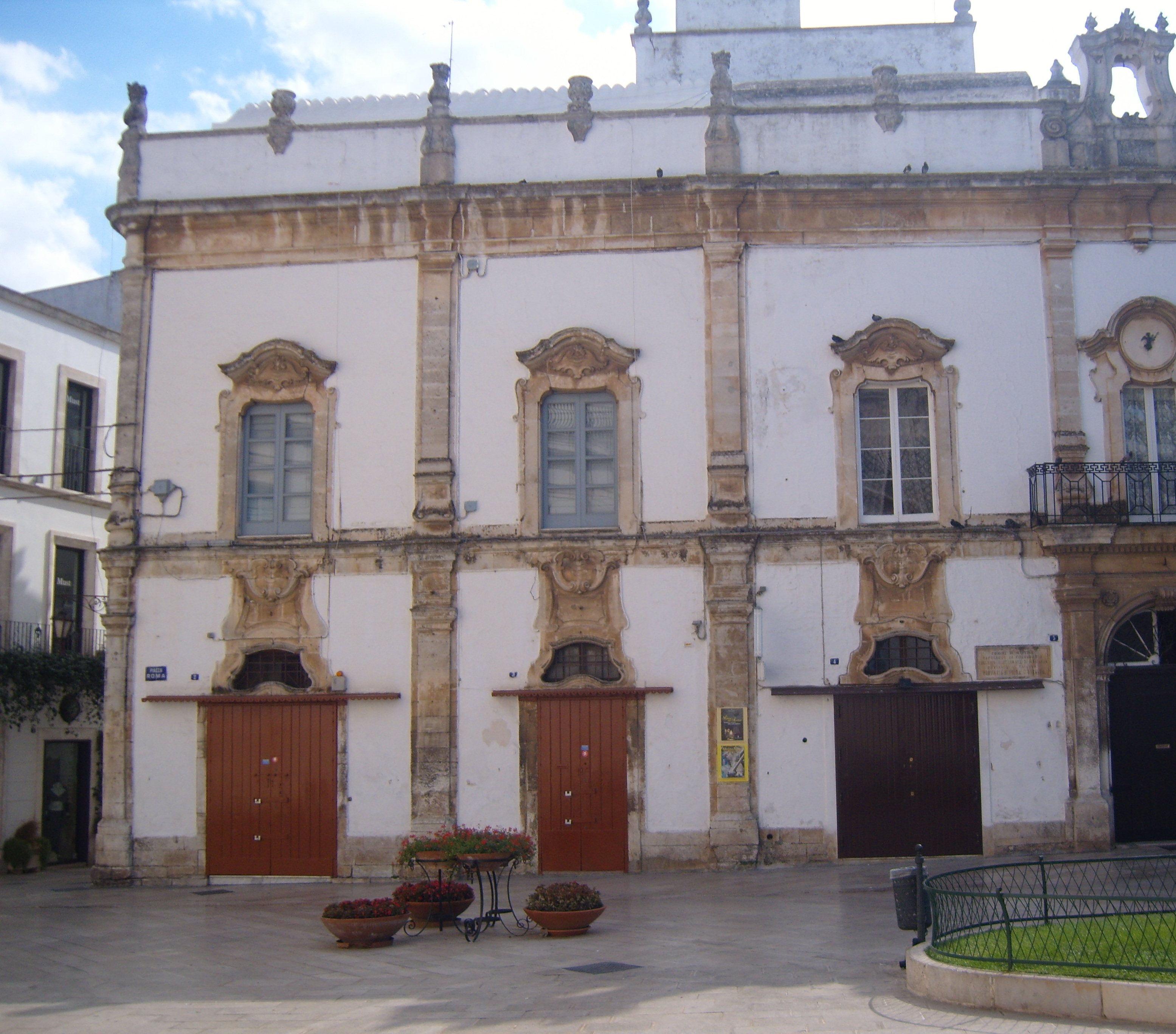 Martucci Palace in Roma Square. Martina Franca, Province of Taranto, Italy